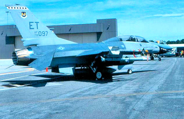 39th Test Squadron - General Dynamics F-16B Block 1 Fighting Falcon - 78-0097